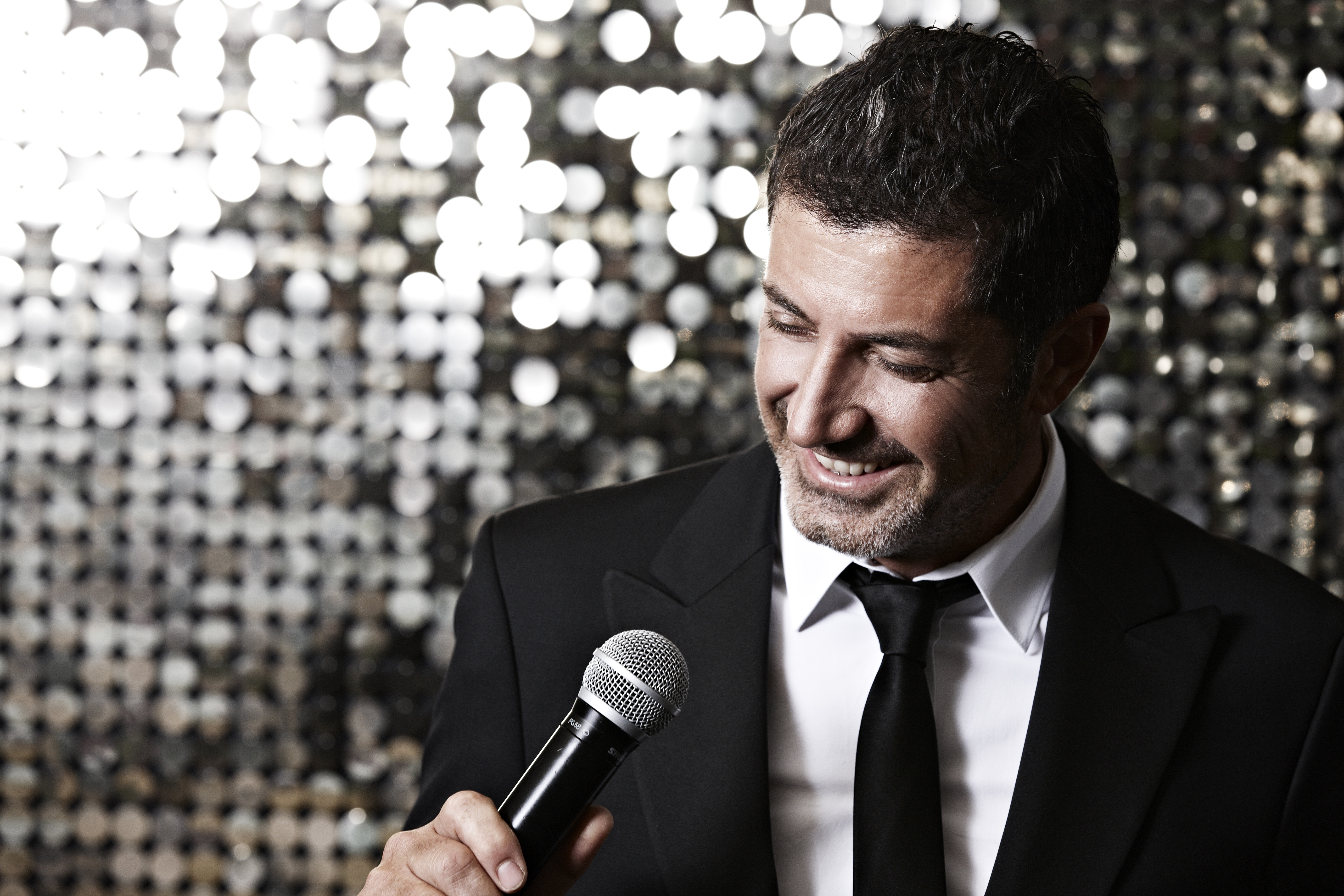 Giovanni Costello Press pictures